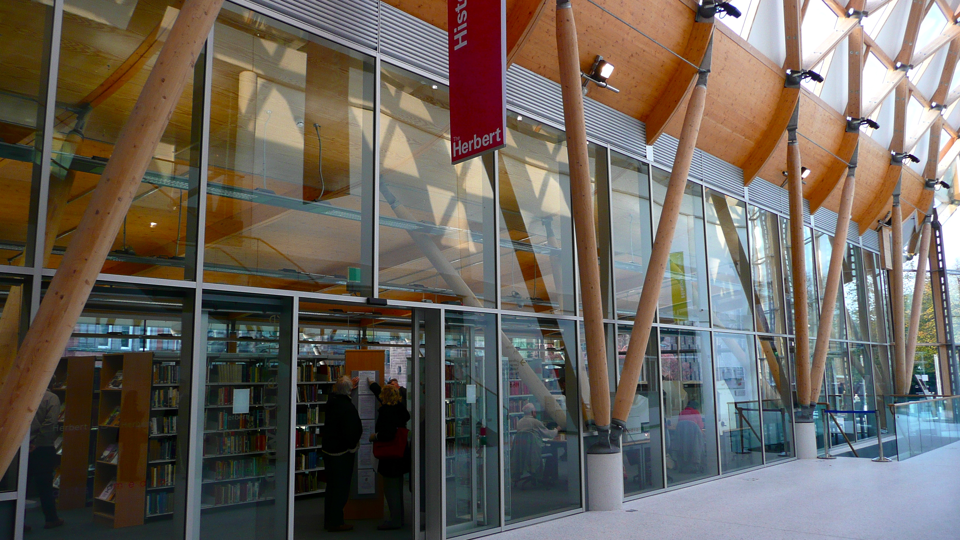 A view of the History Centre from the covered court of the Herbert Art Gallery and Museum, Coventry.